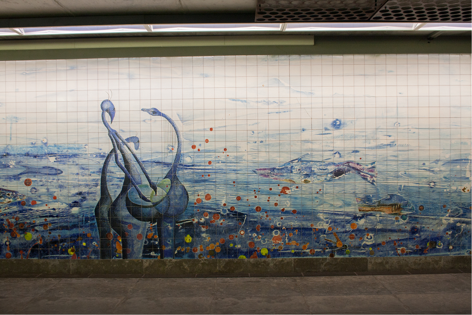 Art work February 1998 by Abdoulaye Konaté at Oriente metro station in Lisbon, Portugal